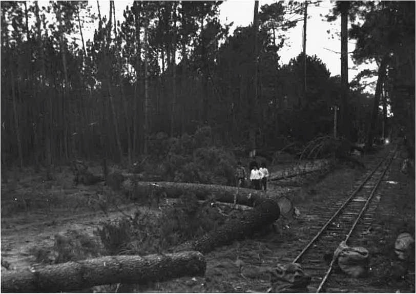 Winter storm of 1941 in Marinha Grande and Pinhal do Rei, in Portugal.